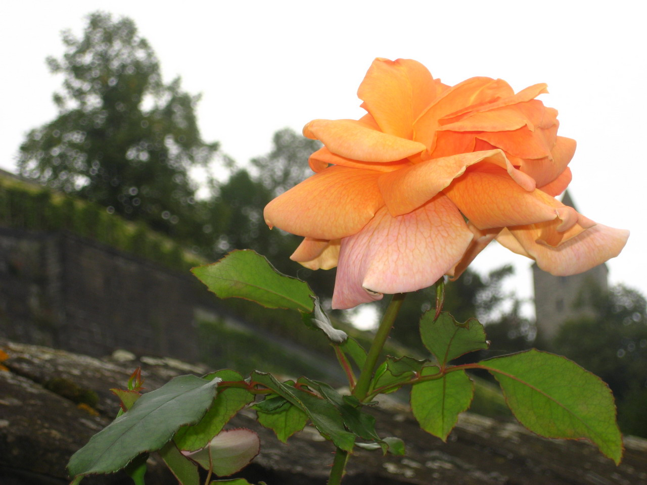 Rapperswil (SG) : Orange Roses nearby Einsiedlerhaus (Capuchin Monastery).